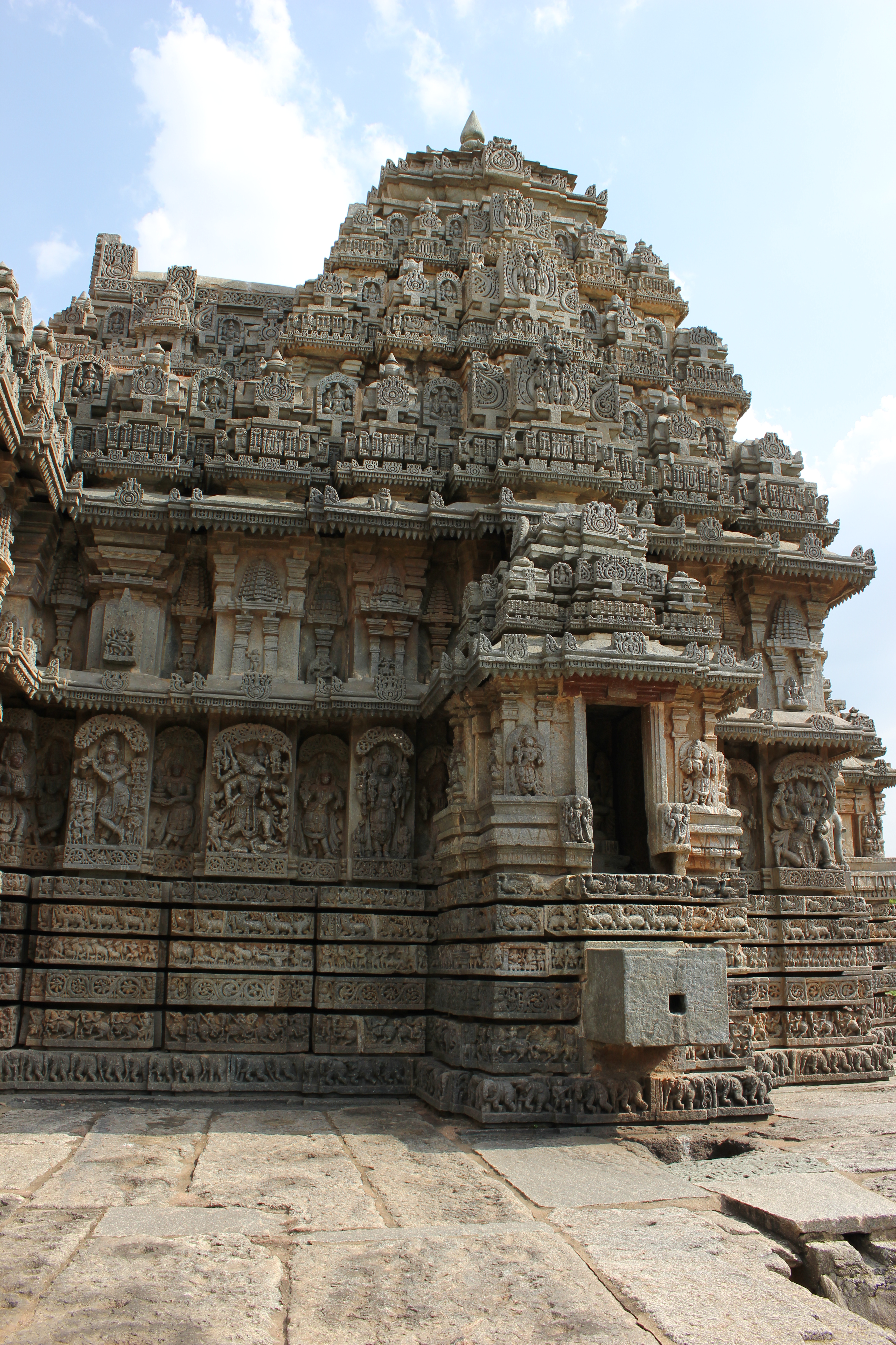 This photo was taken by me (Dinesh Kannambadi) at the Lakshmi Narasimha temple in Nuggehalli, Hassan district, Karnataka state, India. It was built in 1246 CE during the rule of the Hoysala Empire King Vira Someshwara.